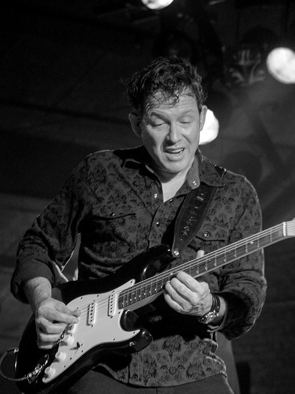 Tommy Castro at Djurs Bluesland, Denmark 2007